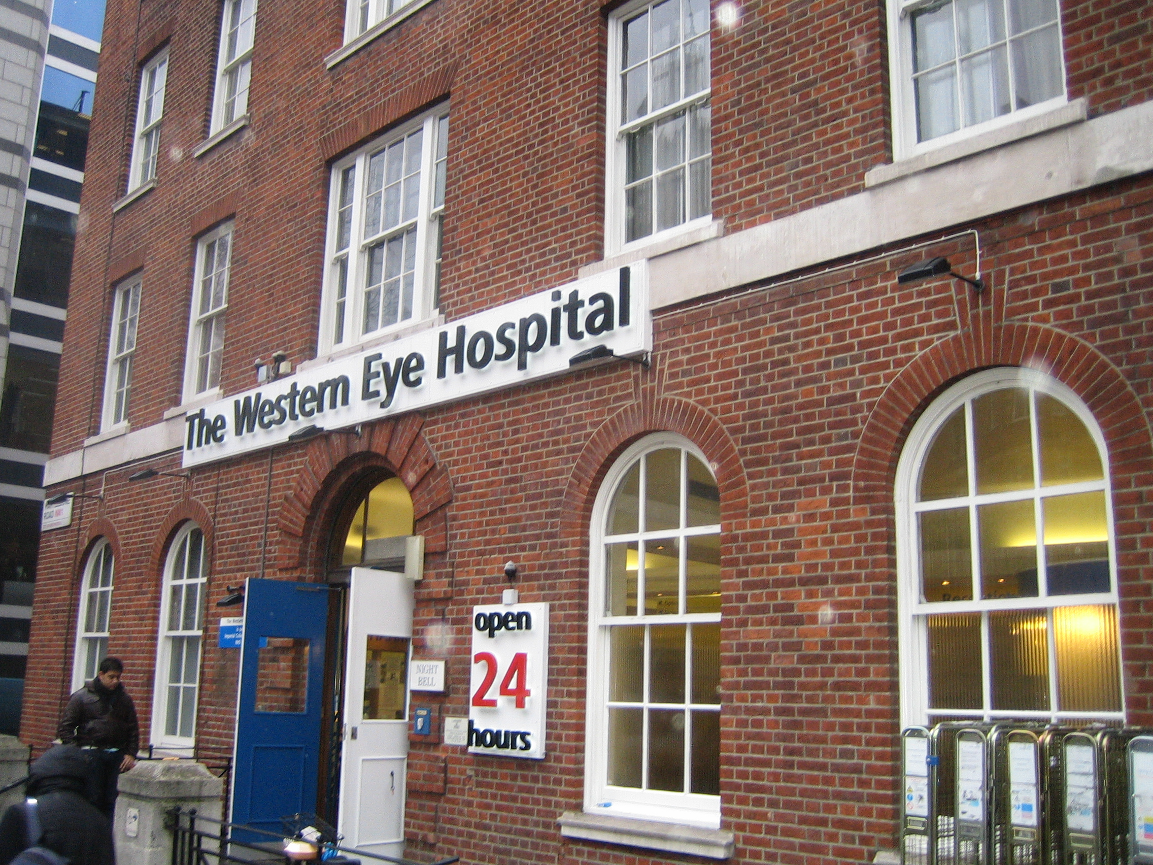 The front of Western Eye Hospital in London.